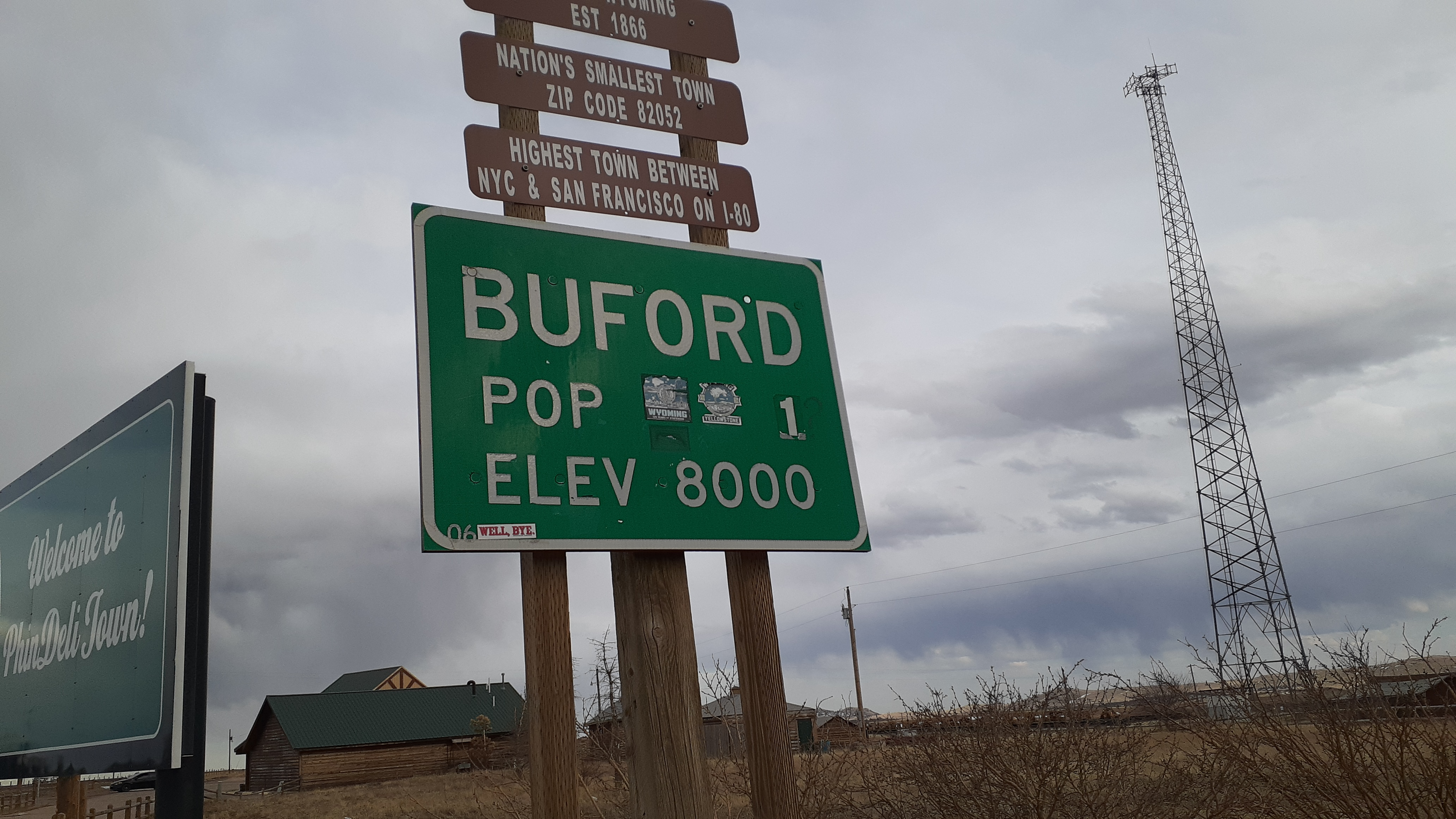 Buford population sign on Apr 4 2020, noting a pop of 1, elevation of 8000. Above is brown signs with "Buford, Wyoming founded 1869", "Nation's Smallest Town zipcode 82052" (title debatable with Monowi, Nebraska), "Highest Town between New York City and San Francisco on I-80" (Yep, 8000 feet)